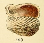 Cardita calyculata (Linnaus, 1758), Carditidae, Bivalvia, Mollusca